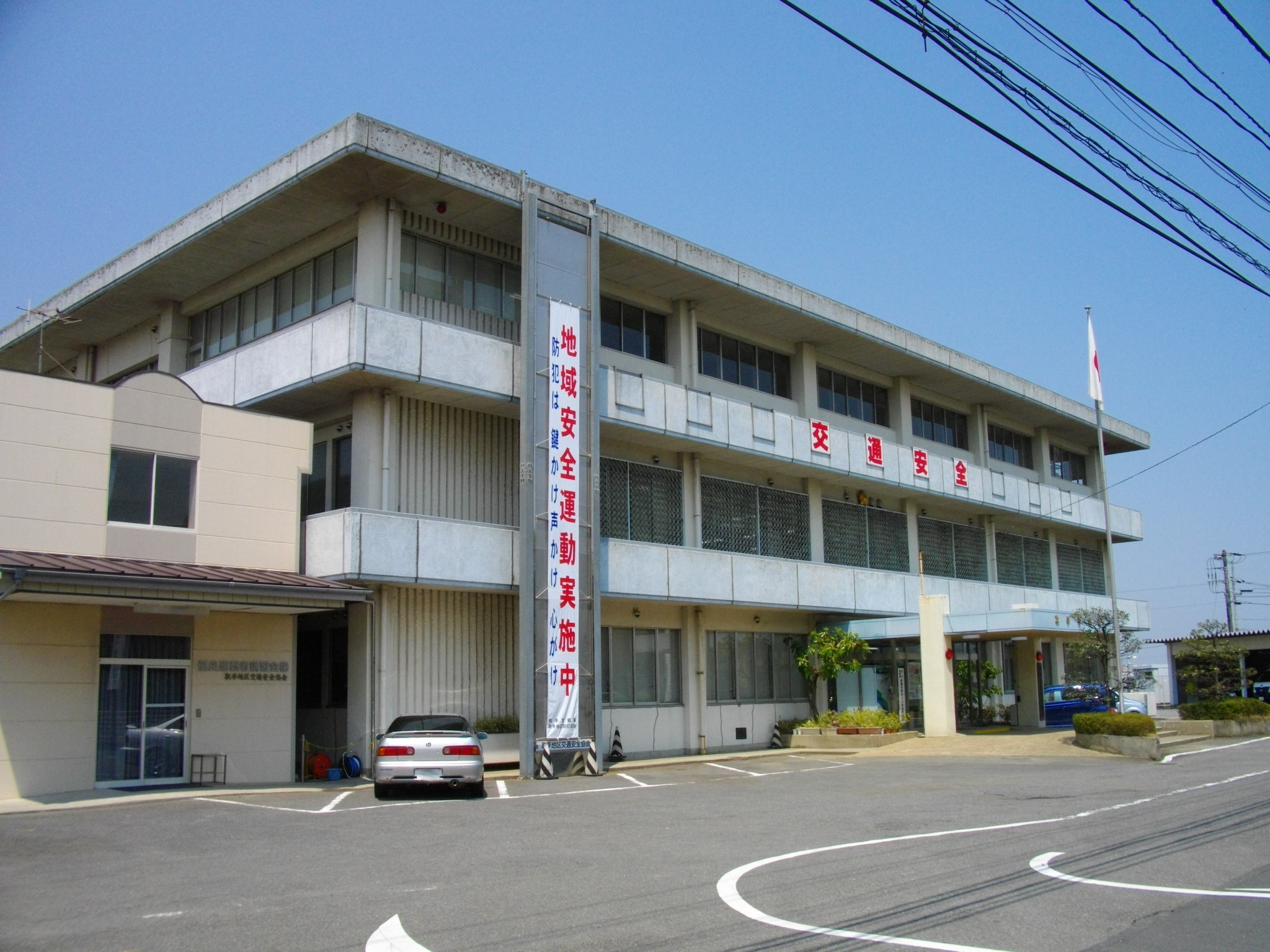 Toride Police Station